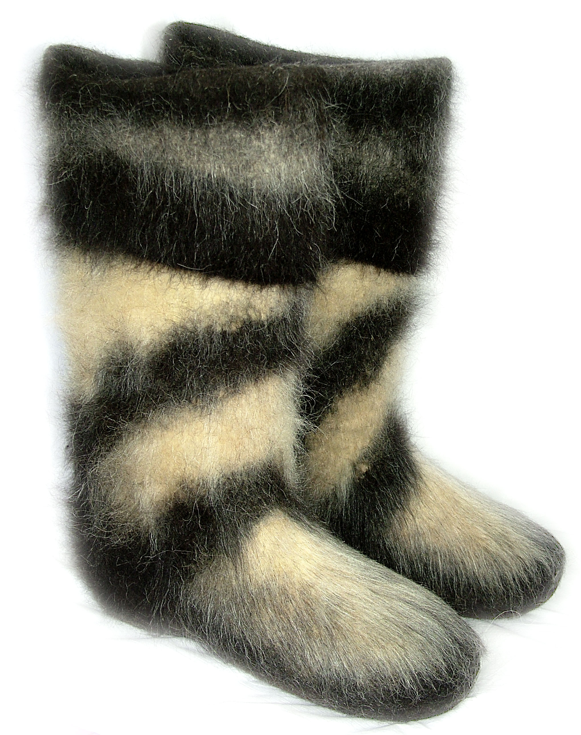 camel wool valenkies for man, size 46